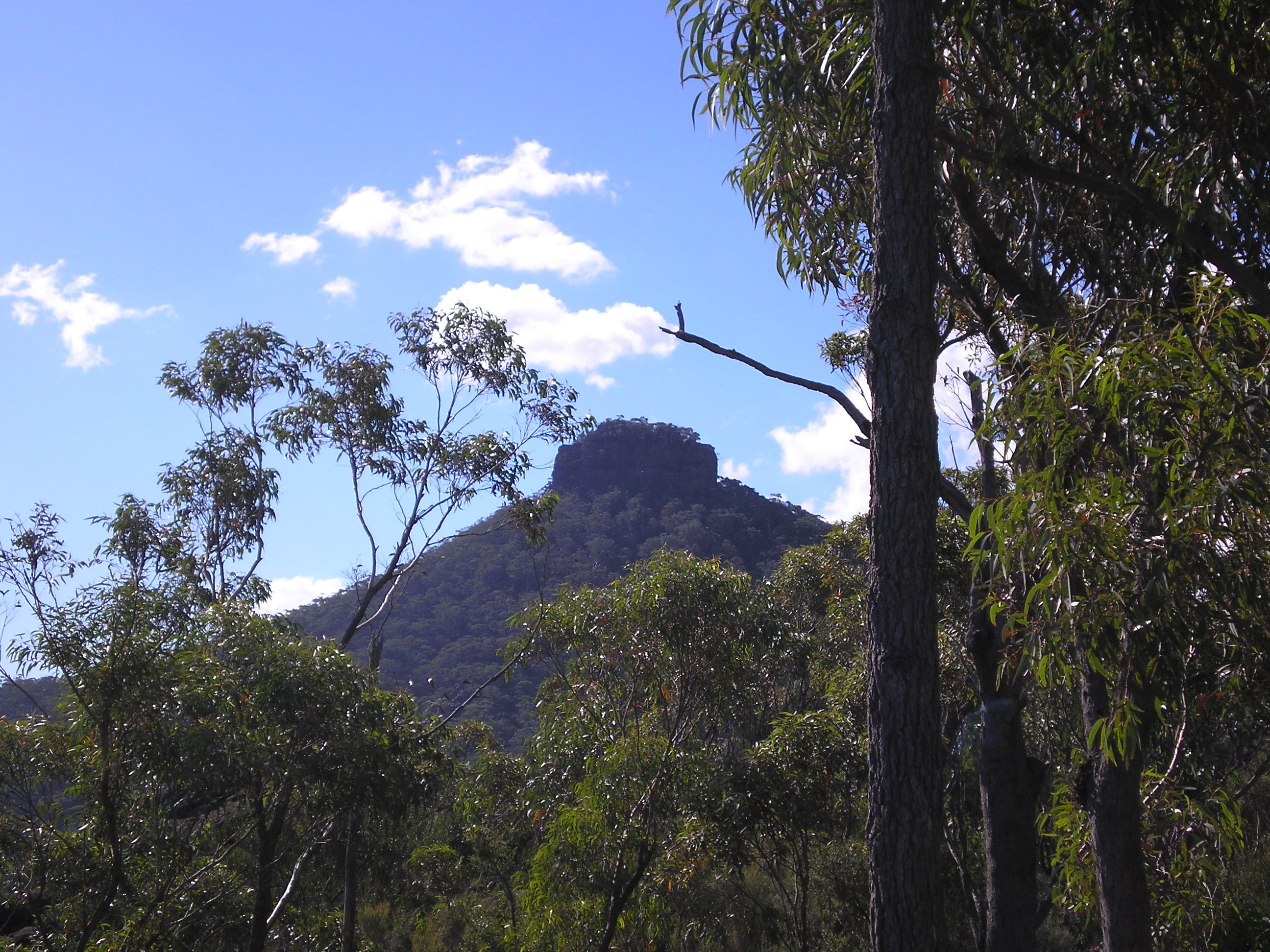 Pigeon House Mountain, NSW, Australia. Taken from the walking track half way up.